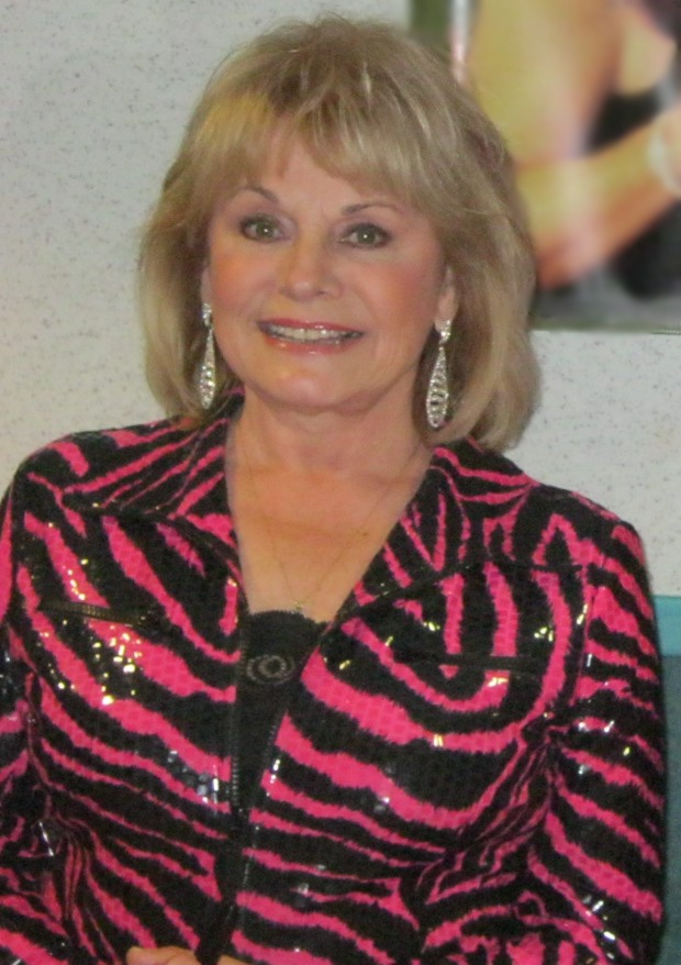 Singer Helen Cornelius posing for a photograph while signing autographs for fans after a show with Jim Ed Brown in Branson, Missouri.